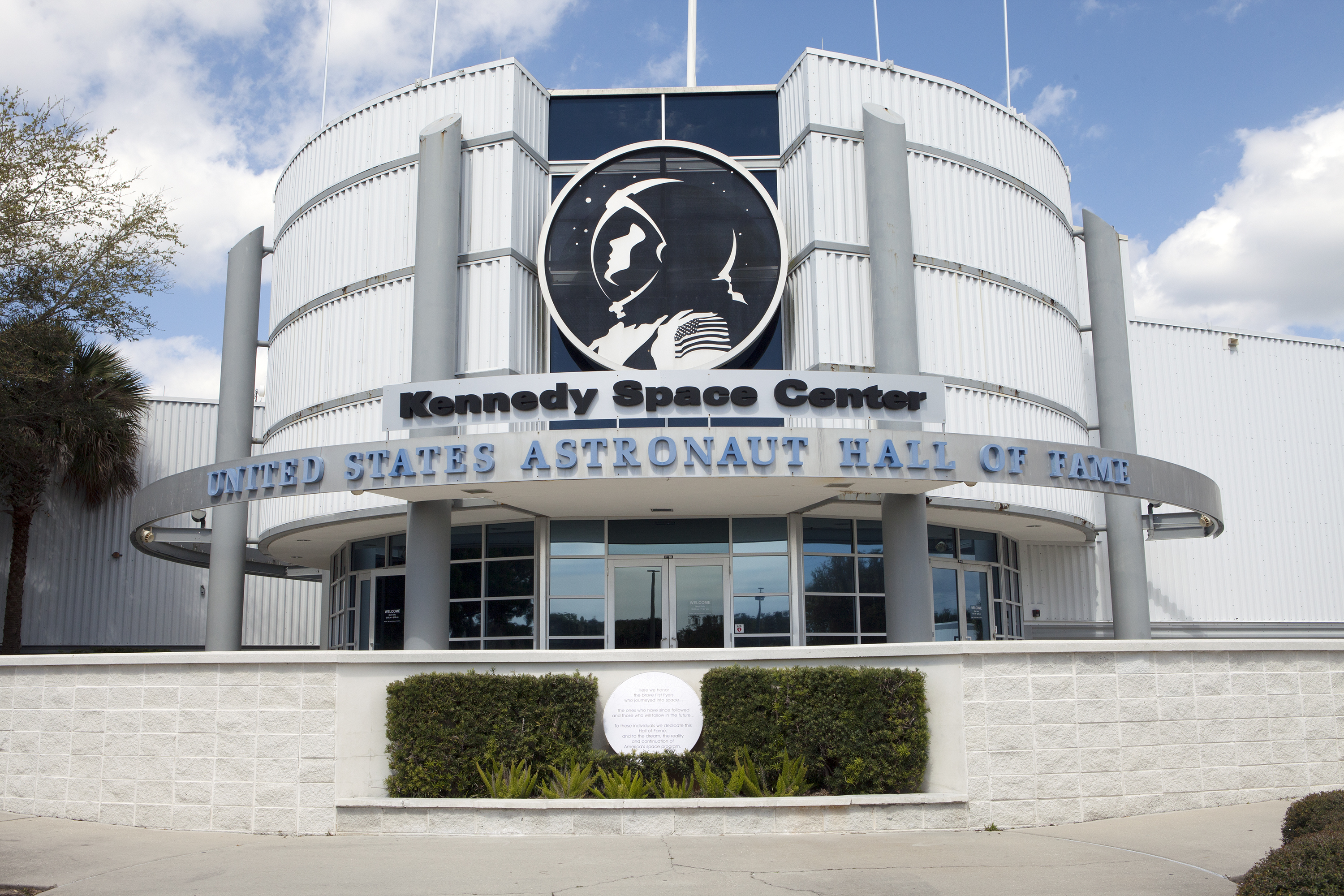 The United States Astronaut Hall of Fame at the Kennedy Space Center Visitor Complex is the site for a wreath laying ceremony for former NASA astronaut William R. Pogue. Col. Pogue, pilot on NASA's Skylab 4 mission in 1973-74, died March 3. He was 84 years old. Skylab 4 was the third and final manned visit to the Skylab orbital workshop, launched Nov. 16, 1973, and concluded Feb. 8, 1974. At 84 days, 1 hour and 15 minutes, Skylab 4 was the longest manned space flight to that date. Pogue was accompanied on the record-setting 34.5-million-mile flight by Commander Gerald P. Carr and science-pilot Dr. Edward G. Gibson. They conducted dozens of experiments and science demonstrations during their 1,214 orbits of Earth. Pogue logged 13 hours and 31 minutes in two spacewalks outside the orbital workshop.